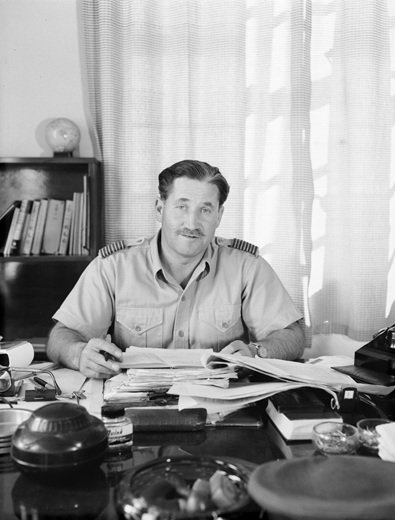 De Lange when he held Group Captain Rank